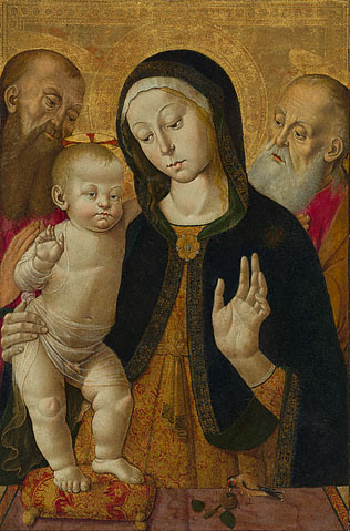 Madonna with Child and Two Hermit Saints